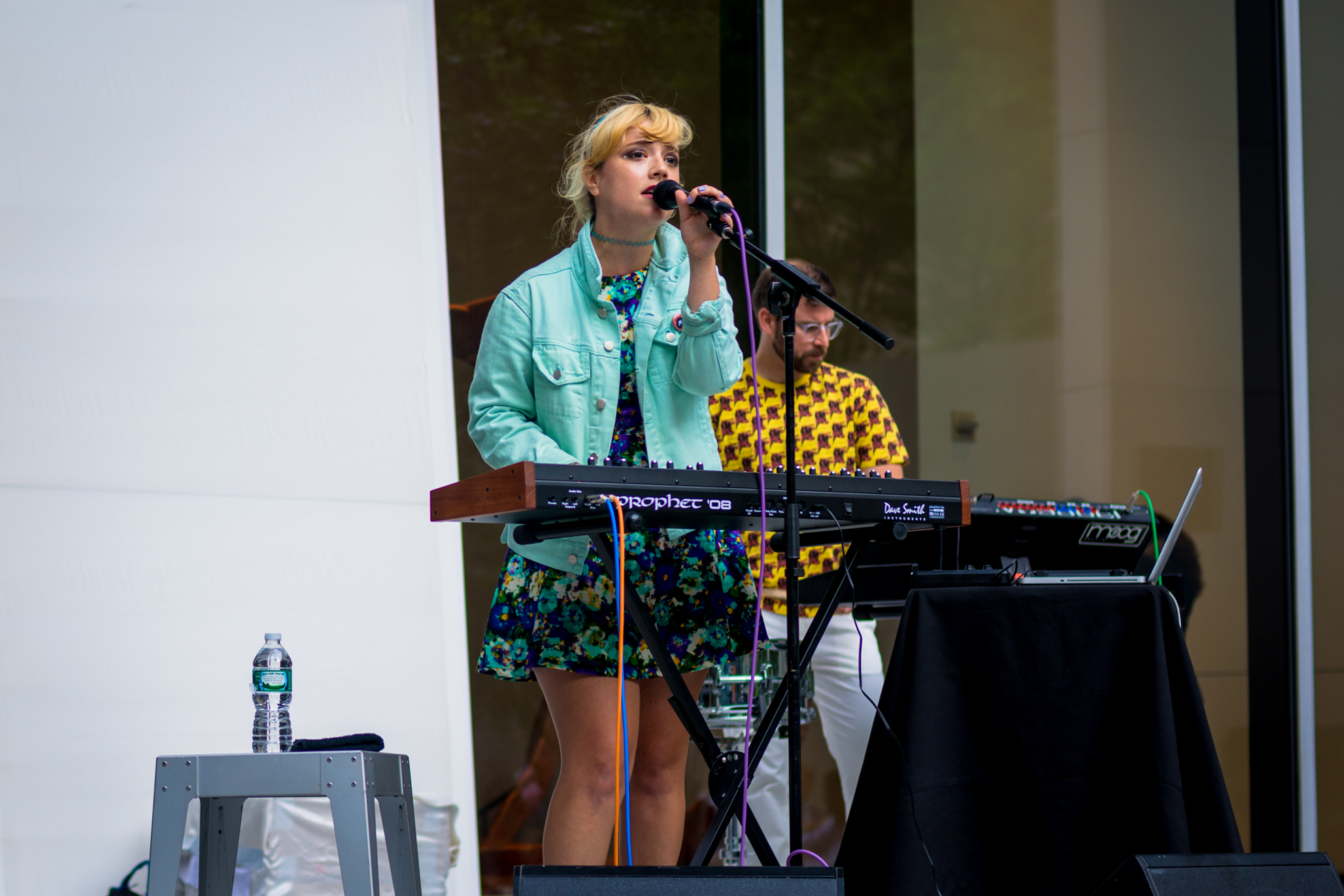 Computer Magic performs at MoMA Sculpture Garden, 10 July 2014